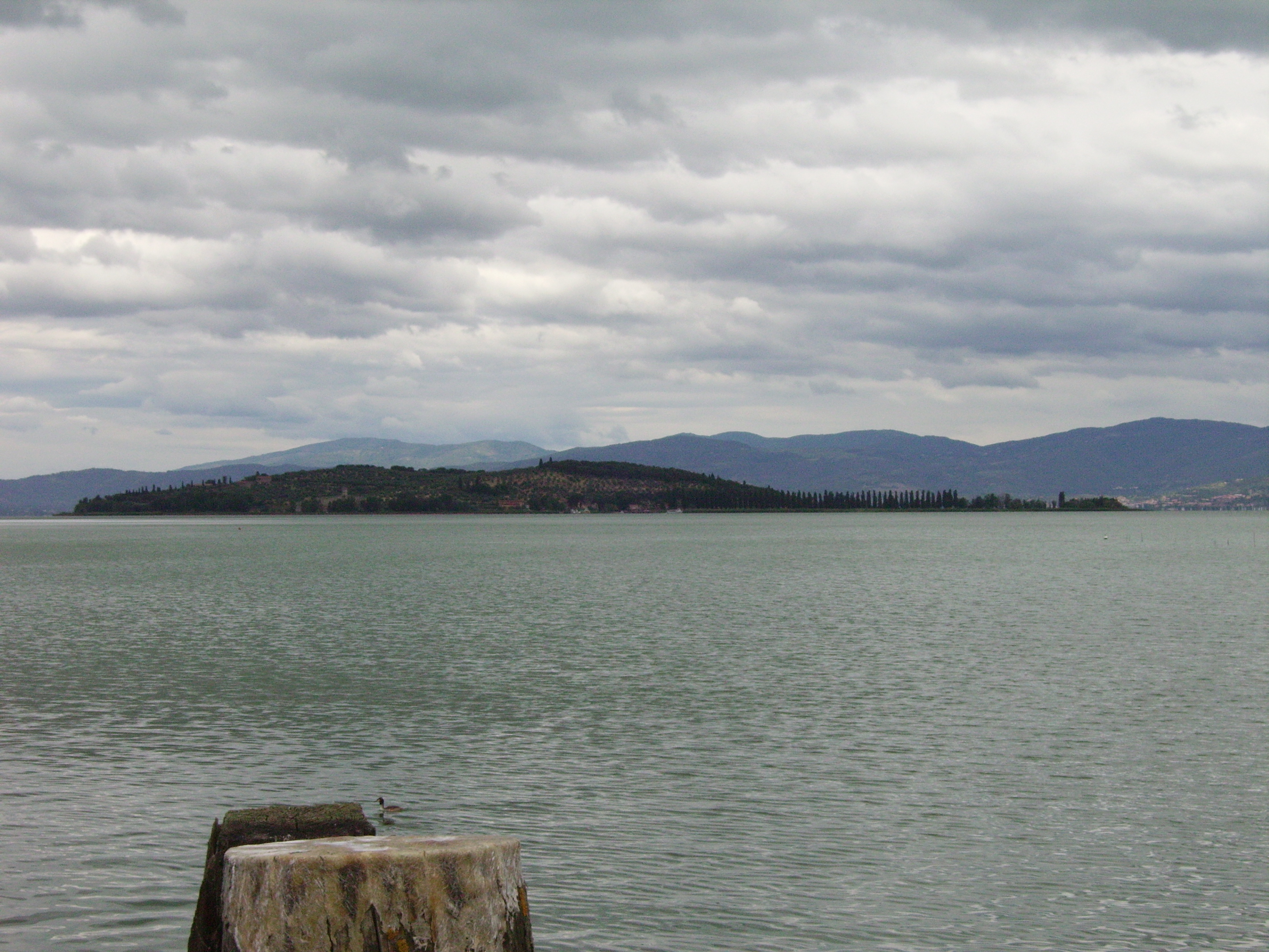 Isola Polvese, the largest island of the Lake Trasimeno